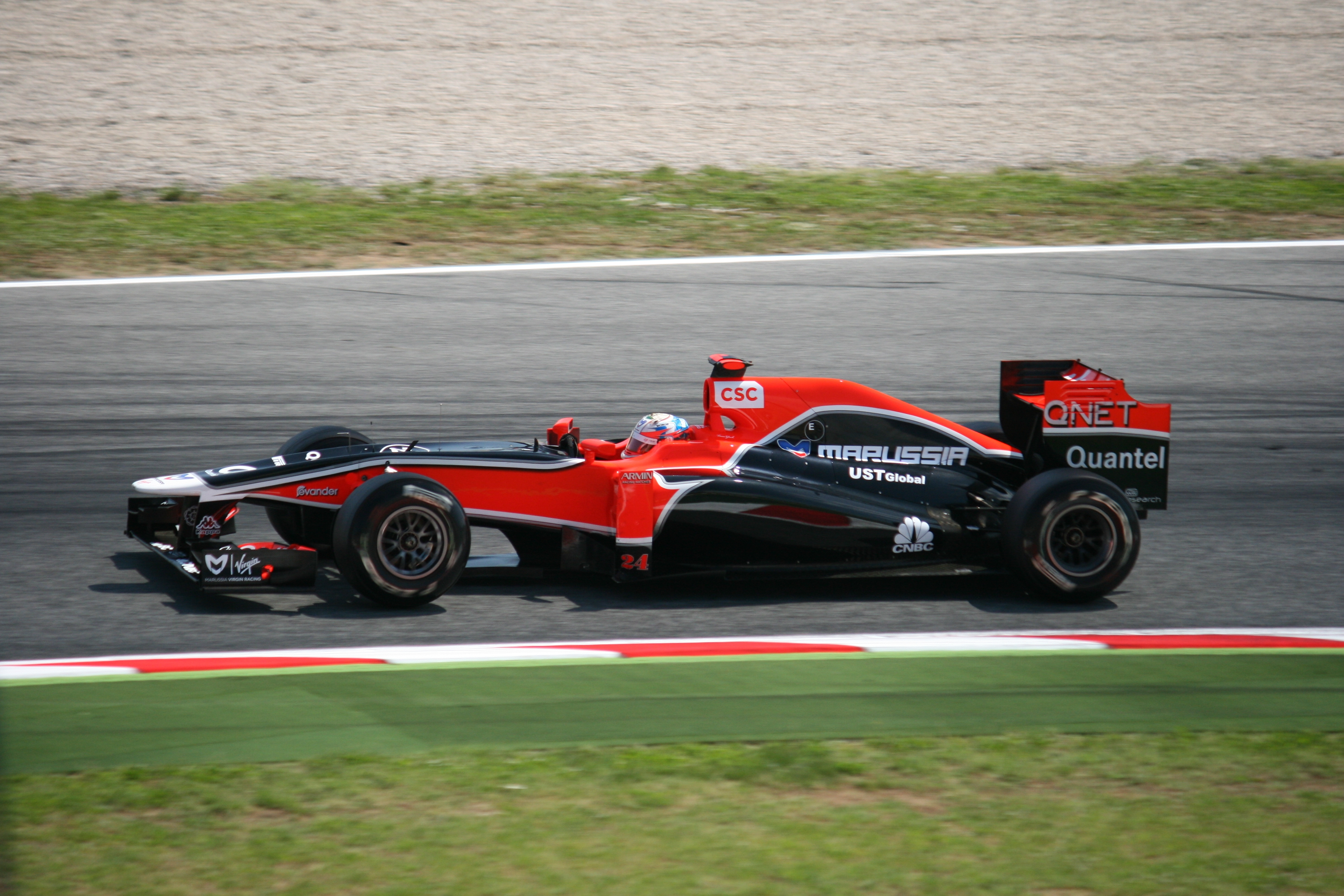 Virgin MVR-02 Timo Glok 2011 Spanish Grand Prix